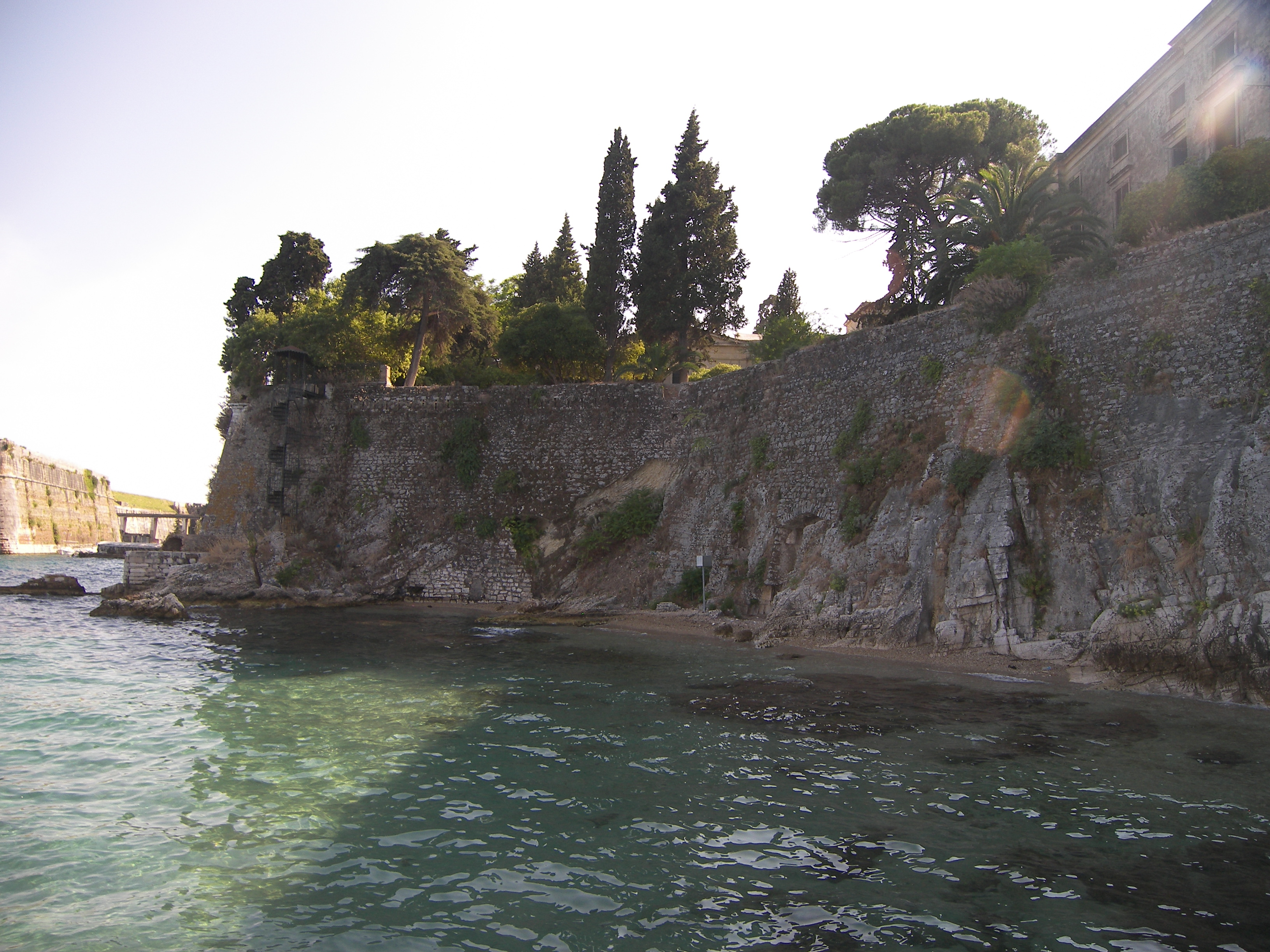 Garden of the People in Corfu